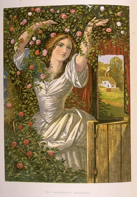 The Gardener's Daughter: This was published in Evans, Edmund (1861) The Art Album: Sixteen Facsimilies of Water-colour Drawings, London: W.Kent and Company